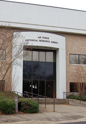 Entrance to Air Force Historical Research Agency, Maxwell AFB, Alabama